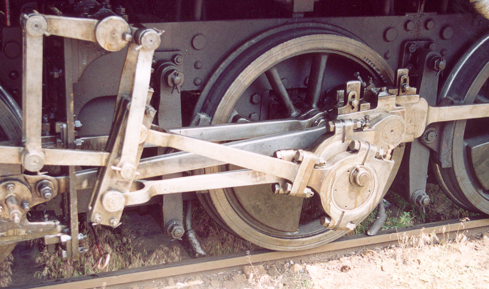 Detail of using Eccentric (mechanism) on old steam locomotive. It is ČSD type 310.093 (originaly austrian engine) Author:Stanislav Jelen town Písek, 2004 Shotted by Nikon F60 + Voigtlanger 28-105/1:2.8-3.8